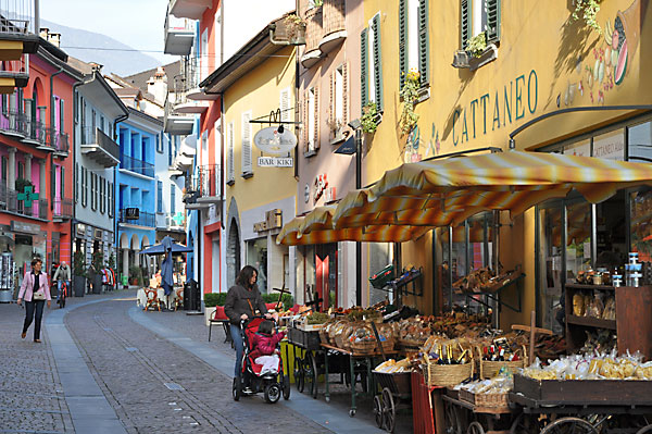 The street: via borgo